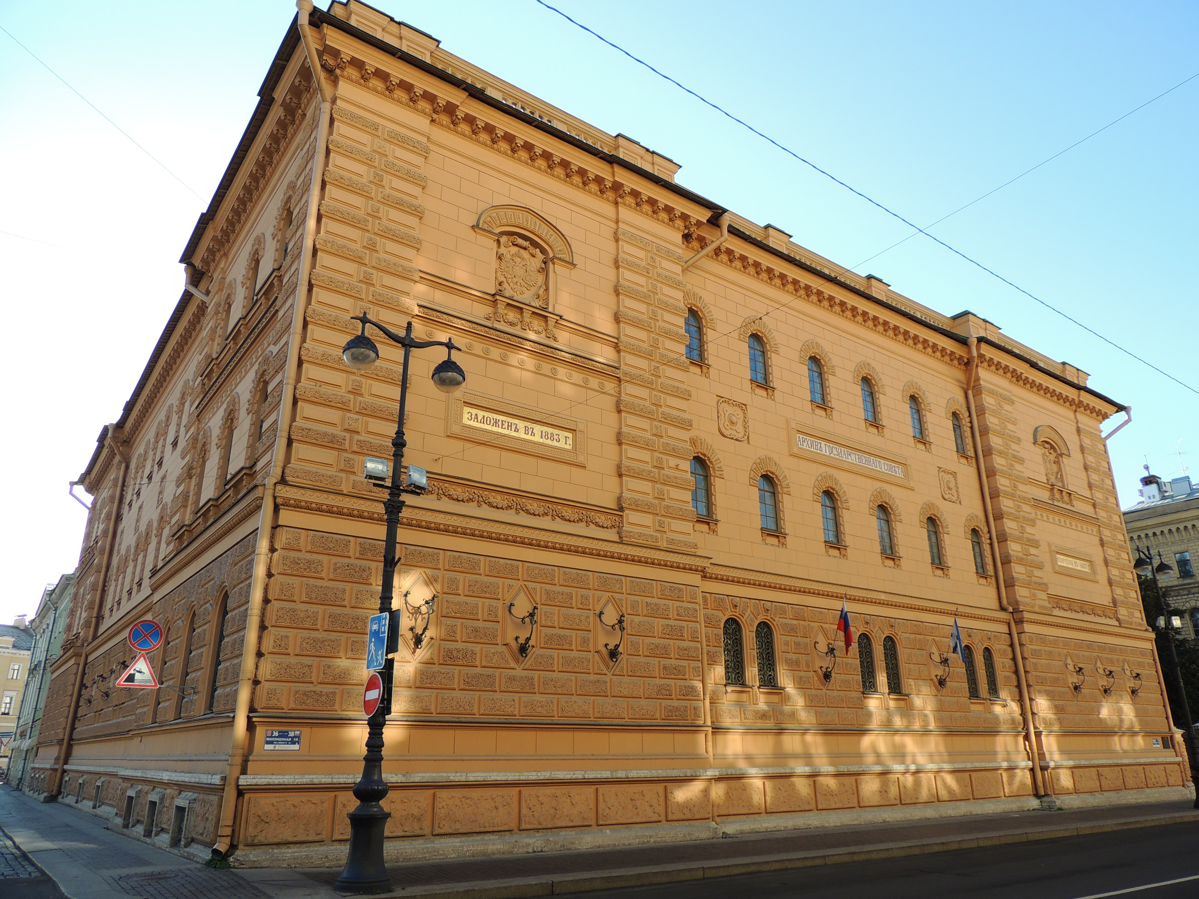 The building of the State Council of the archive - Archive of the Navy